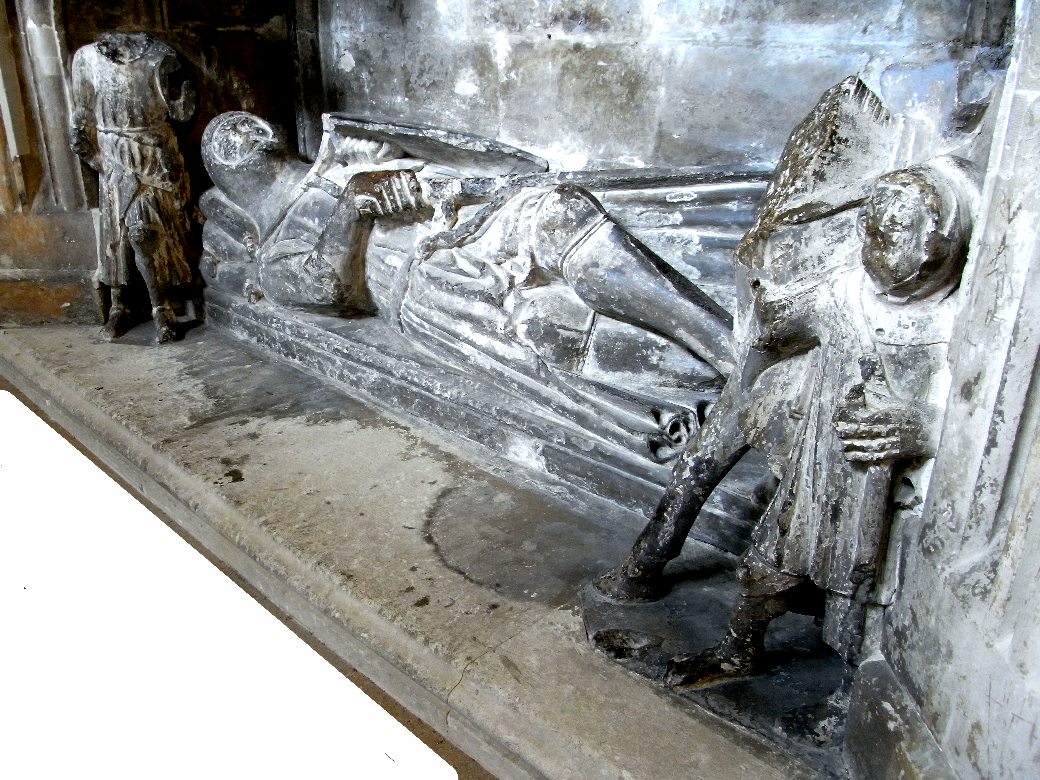 Effigy and monument in Exeter Cathedral, Devon, to Sir Richard de Stapledon (d.1326) of Annery in the parish of Monkleigh, Devon. He is shown in the cross-legged posture more commonly used in the 13th century, supposedly depicting crusaders.